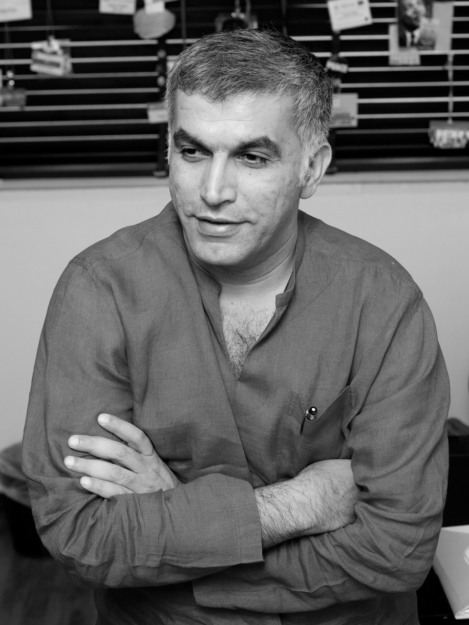 Manama, Irish Bahrain Delegation: 15th July 2011: New hope for Irish-trained medics imprisoned in Bahrain as Irish delegation concludes visit. The Bahraini Minister for Health has told an Irish delegation that she will appeal to King Hamad to release on bail the 14 medics who remain in prison following anti-government protests last March. Over the course of two days, the delegation met a wide range of groups. Doctors who had previously been in custody recounted how they had been subjected to torture and degradation. The families of those still in prison expressed concern about their loved ones. Meetings were also held with the Minister for Health, the Undersecretary for Foreign Affairs and representatives of the public prosecution service. And a visit was made to the home of Nabeel Rajab, the head of the Bahraini Centre for Human Rights who showed the delegation how his house has been targeted with tear gas for speaking out about human rights abuses in his country.